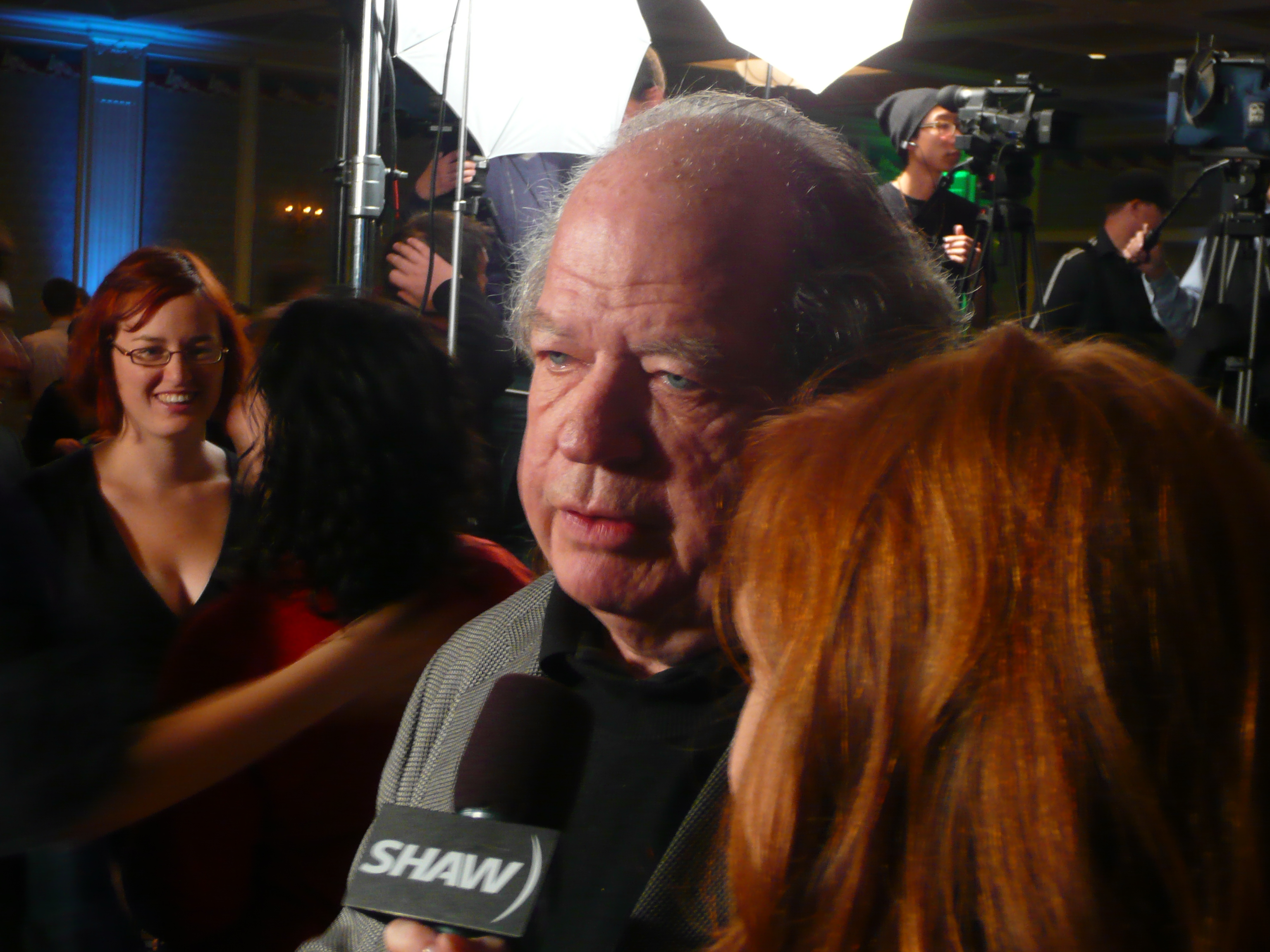 More here